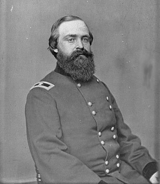 John C. Caldwell, Library of Congress Civil War Collection